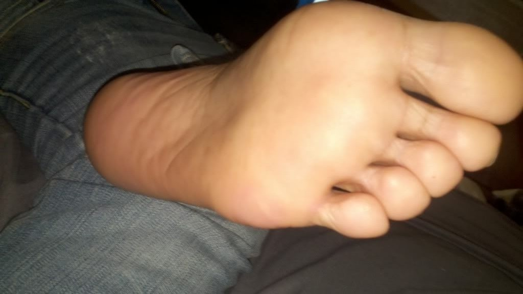 My Feet smooth sole